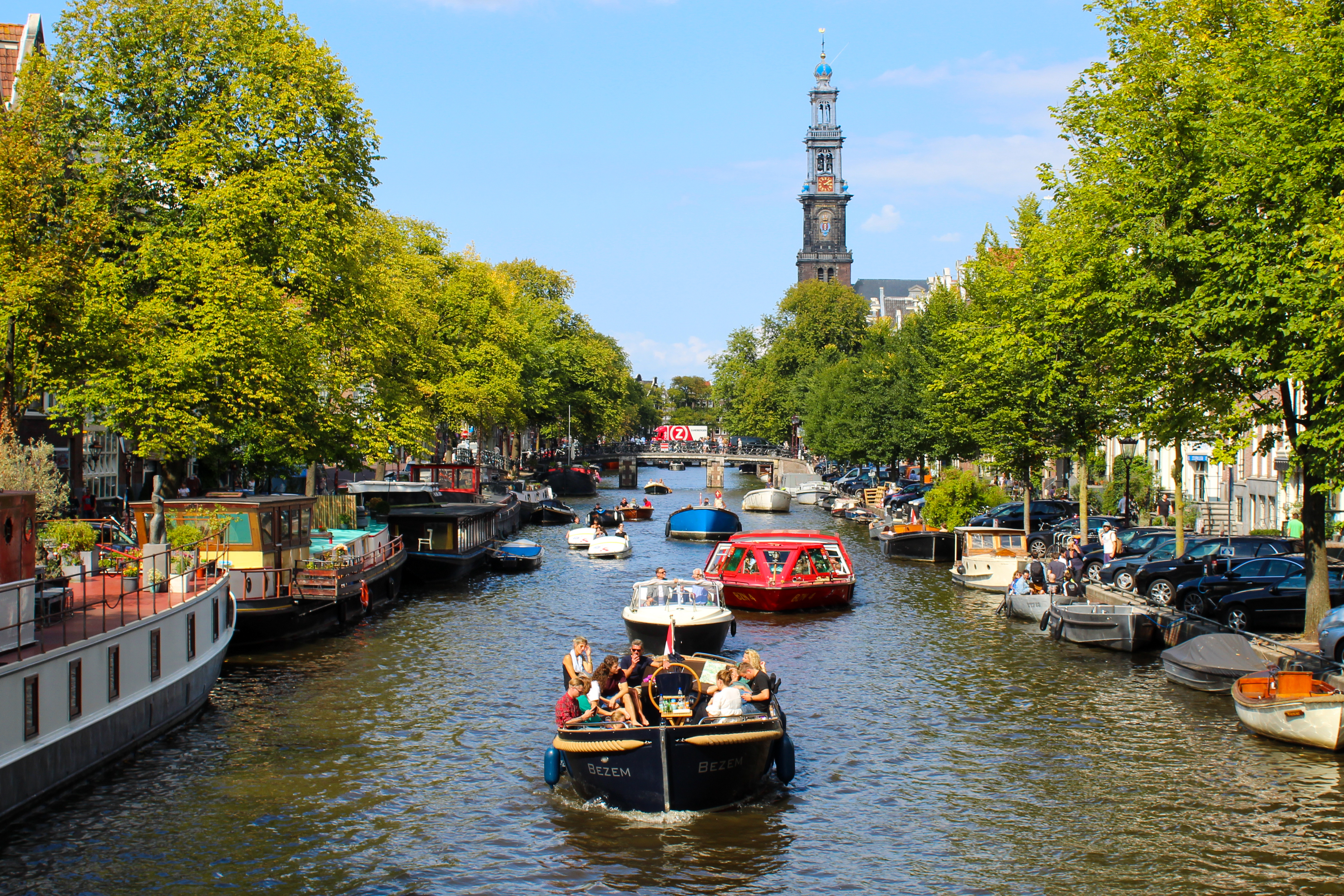 Prinsengracht in Amsterdam.